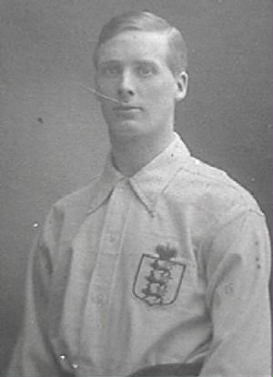 England international footballer Frederick Beaconsfield Pentland